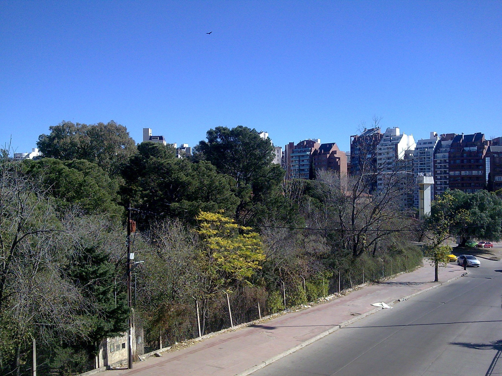 Striking contrast between zoo's afforestation and Nueva Cordoba neighborhood buildings. Cordoba, Argentina.